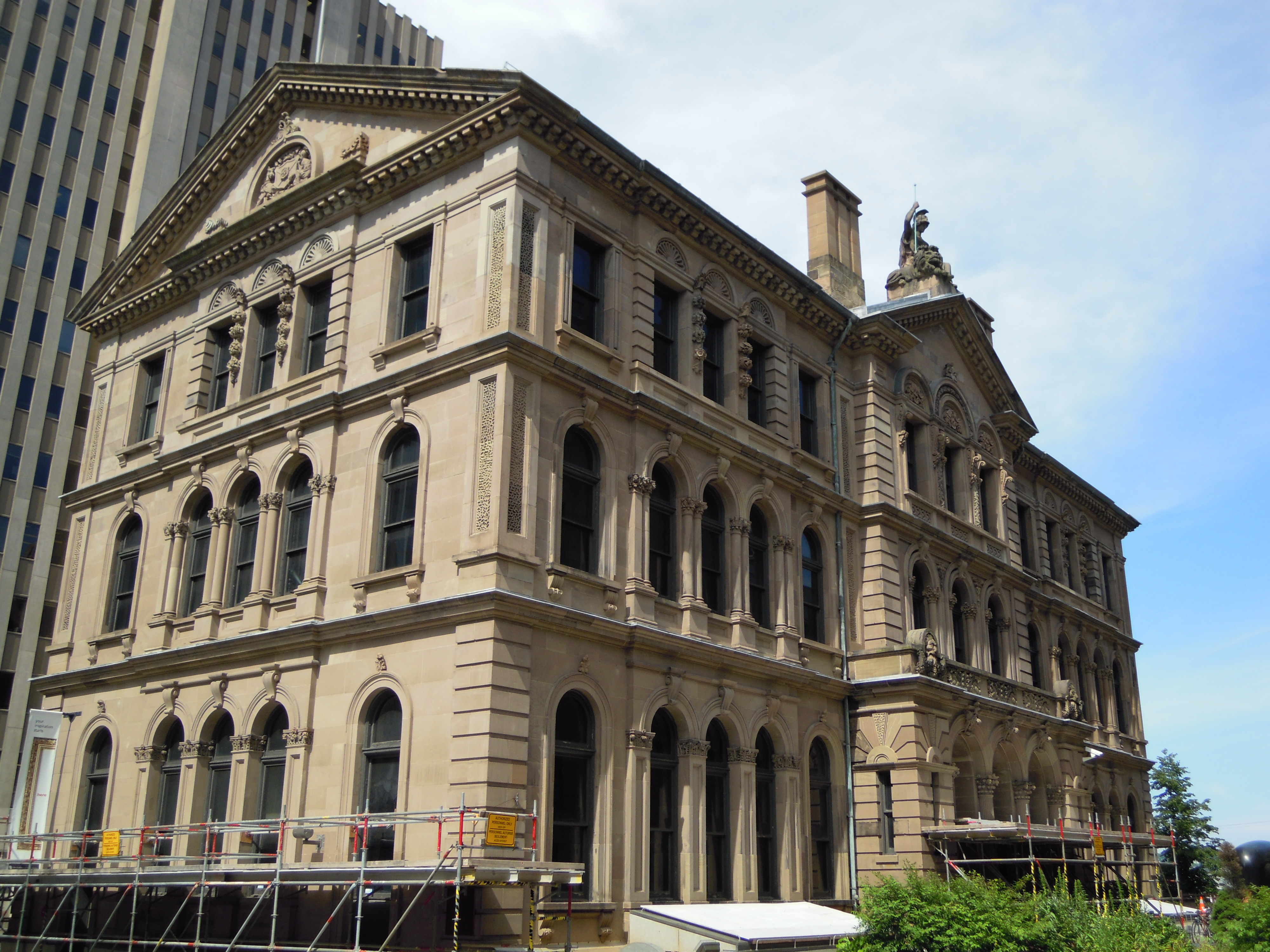 The former Dominion Building, now serving as part of the facilities of the Art Gallery of Nova Scotia. Halifax, Nova Scotia, Canada.